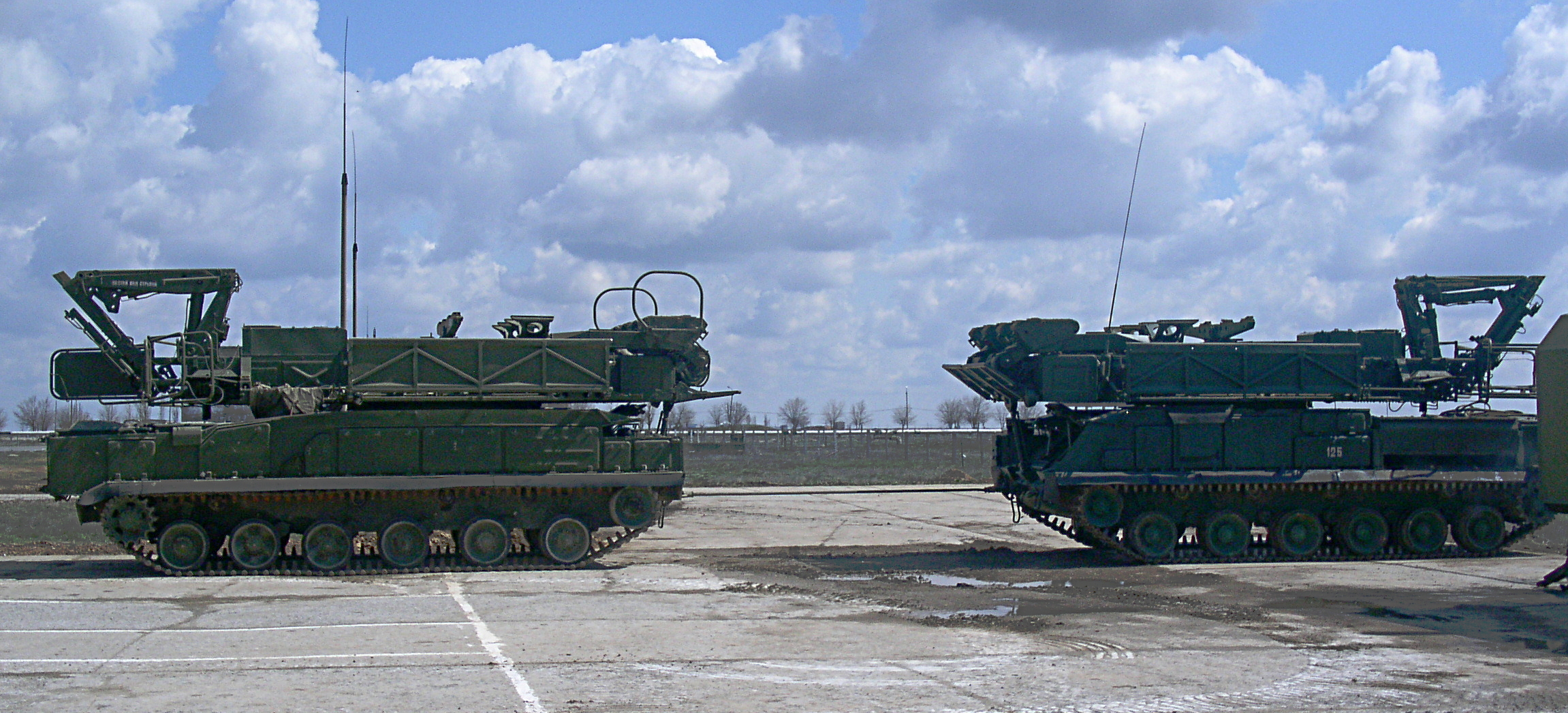 Buk missile system 2 Transporter-Erector-Launchers